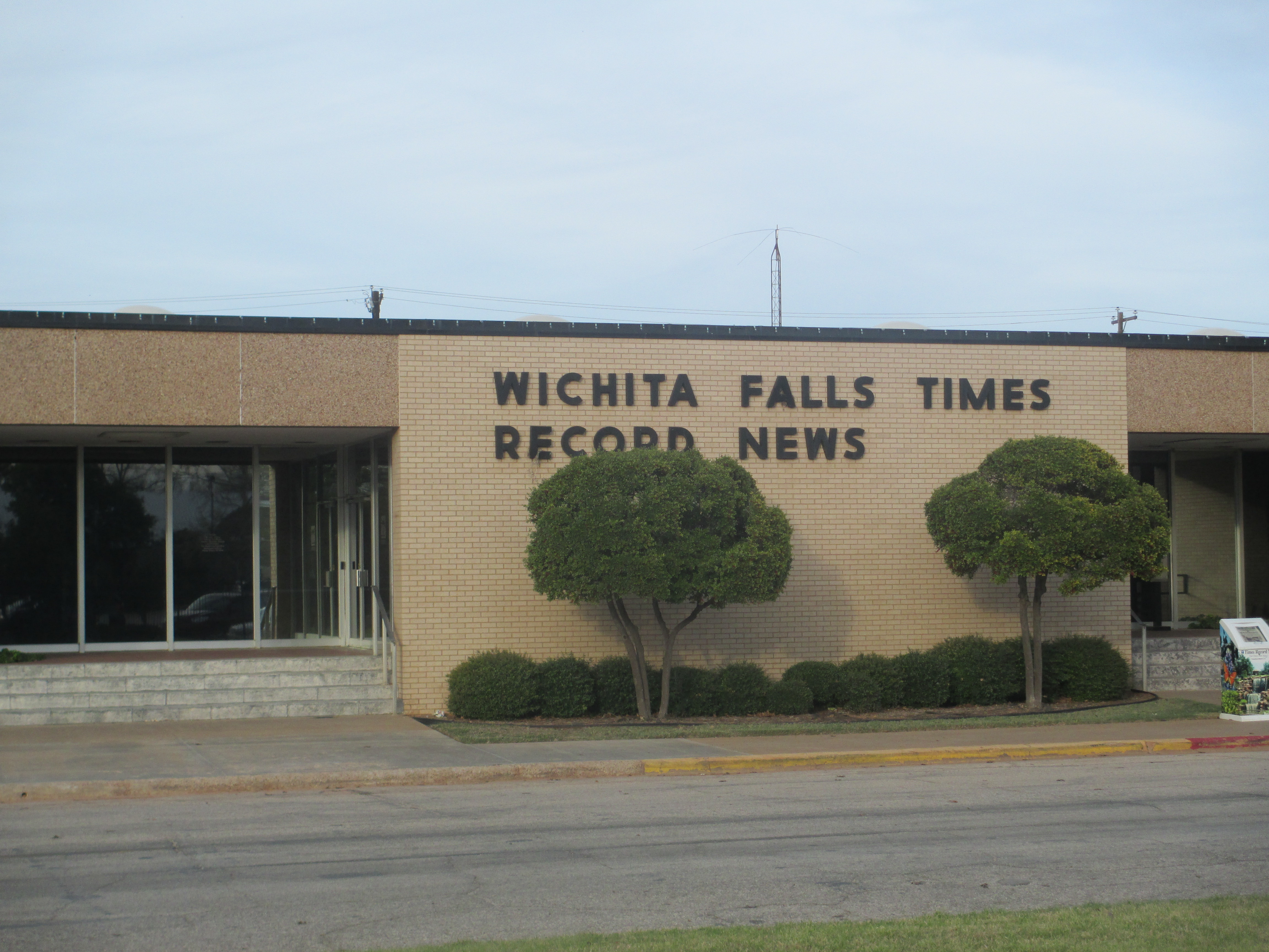 I took photo of office of Wichita Falls Times Record News in Wichita Falls, TX, with Canon camera, April 6, 2013. Billy Hathorn (talk) 16:16, 10 April 2013 (UTC)